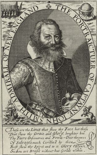 "John Smith," line engraving from the 18th century, after Simon De Passe. 6 7/8 in. x 4 3/4 in. Courtesy of the National Portrait Gallery, London.